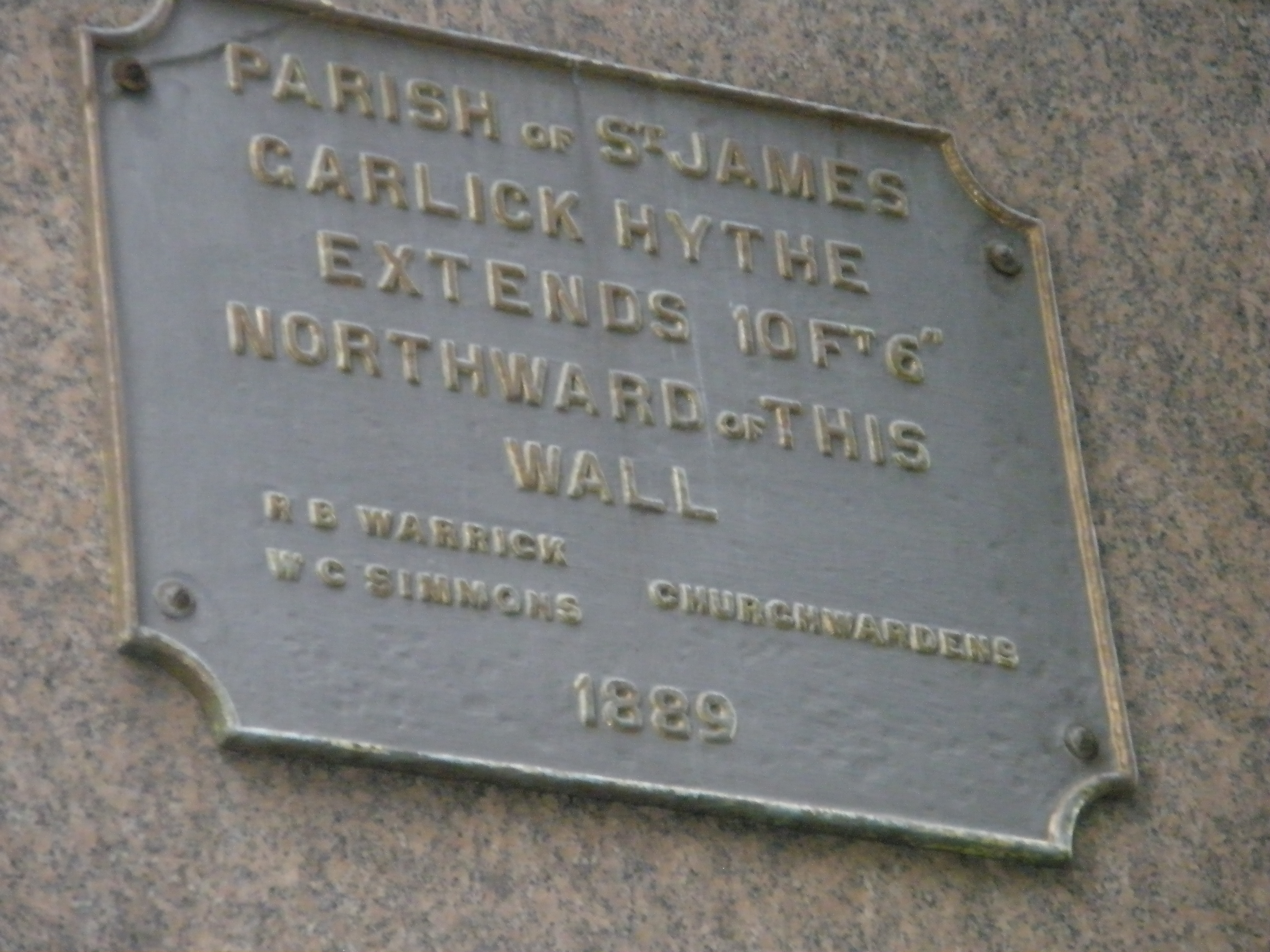 Plaque in Great Trinity Lane